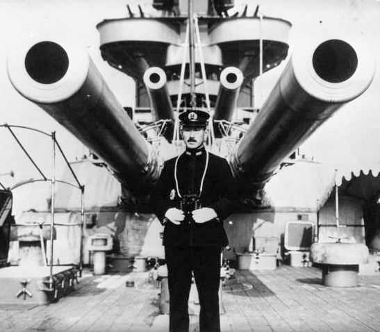 Japanese Vice-Admiral Sankichi Takahashi (1882-1966) in front of the Rear 14-inch gun turrets of the Battleship Yamashiro. There is an objection in the above sentence (I am sorry by poor English writings) The setting of the photograph is Fuso model battleship The form of the bridge deck before modern remodeling, Fuso for 1930-1933 years, Yamashiro is 1930-1934 yearsIn being redecorated This at least photograph is a thing before 1930. Of person "Sankichi Takahashi" of also this photograph It is a career until 1930 after the Fuso completion more, In 1924/5 before the Aso captain assumption of office By the land and foreign service, Afterward the Fuso captain, the Naval General Staff, the combined fleet chief of staff, From 1928 I board Akagi as the 1 aviation squadron commander. Of time when I acted as Commander 1 aviation squadron Yamashiro becomes the combined fleet flagship in 1928/12-1929/11, When the commander of other fleets boarded a combined fleet flagship on some kind of business It is not thought that I remove a crew than a front part deck and a bridge deck and took a ceremonial photograph Because if it is the combined fleet chief of staff, I should put on an epaulet (staff officer aiguillette), As for this photograph, Takahashi is a period of 1924/11-1925/12 for the Fuso captain era, The warship of the background is thought to be very likely to be Fuso not Yamashiro.